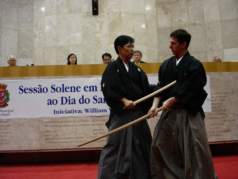 Technique of the Niten Ichi Ryu, Kodachi Seiho (short sword set of technique), executed by Sensei Jorge Kishikawa